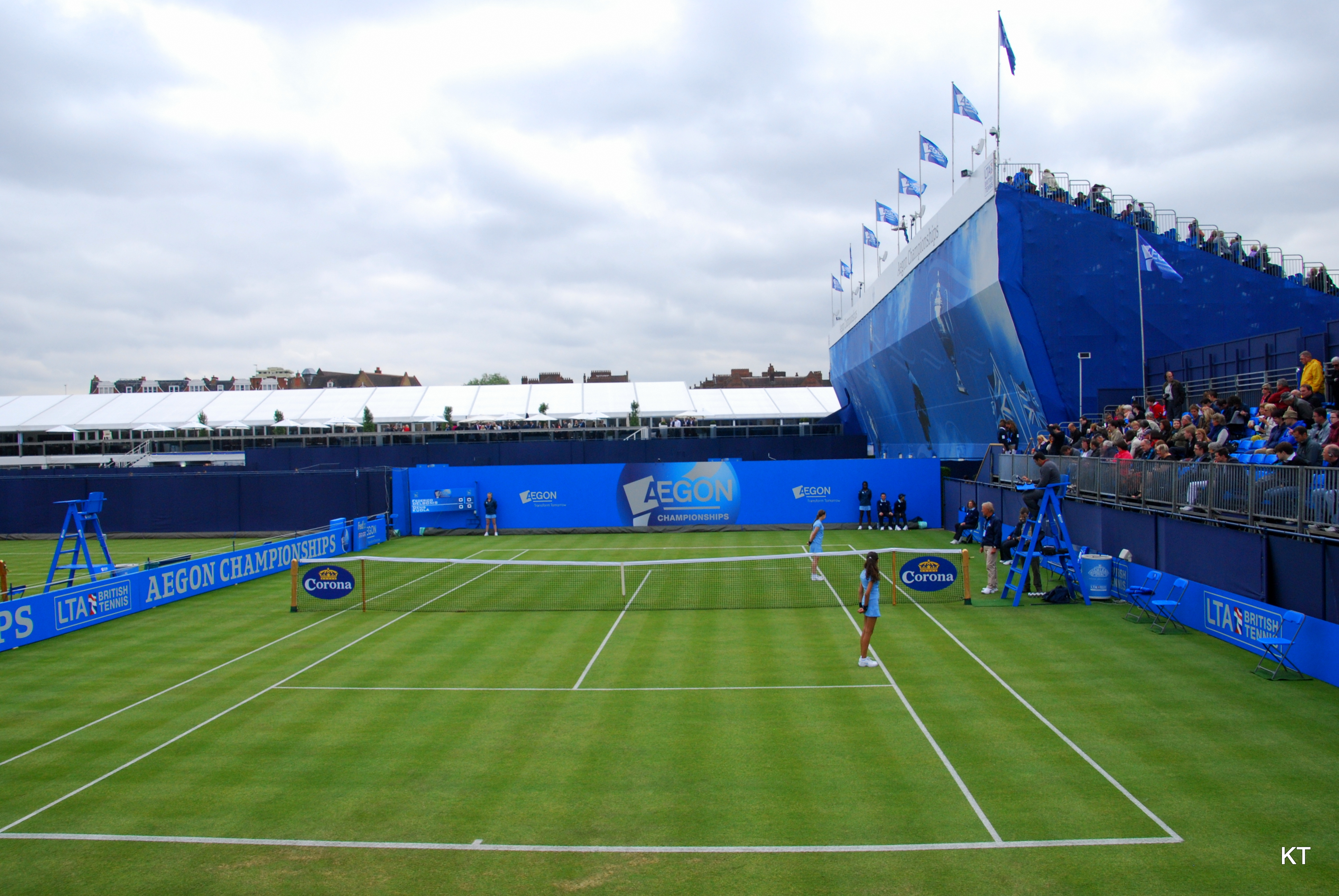 Court 9 ready